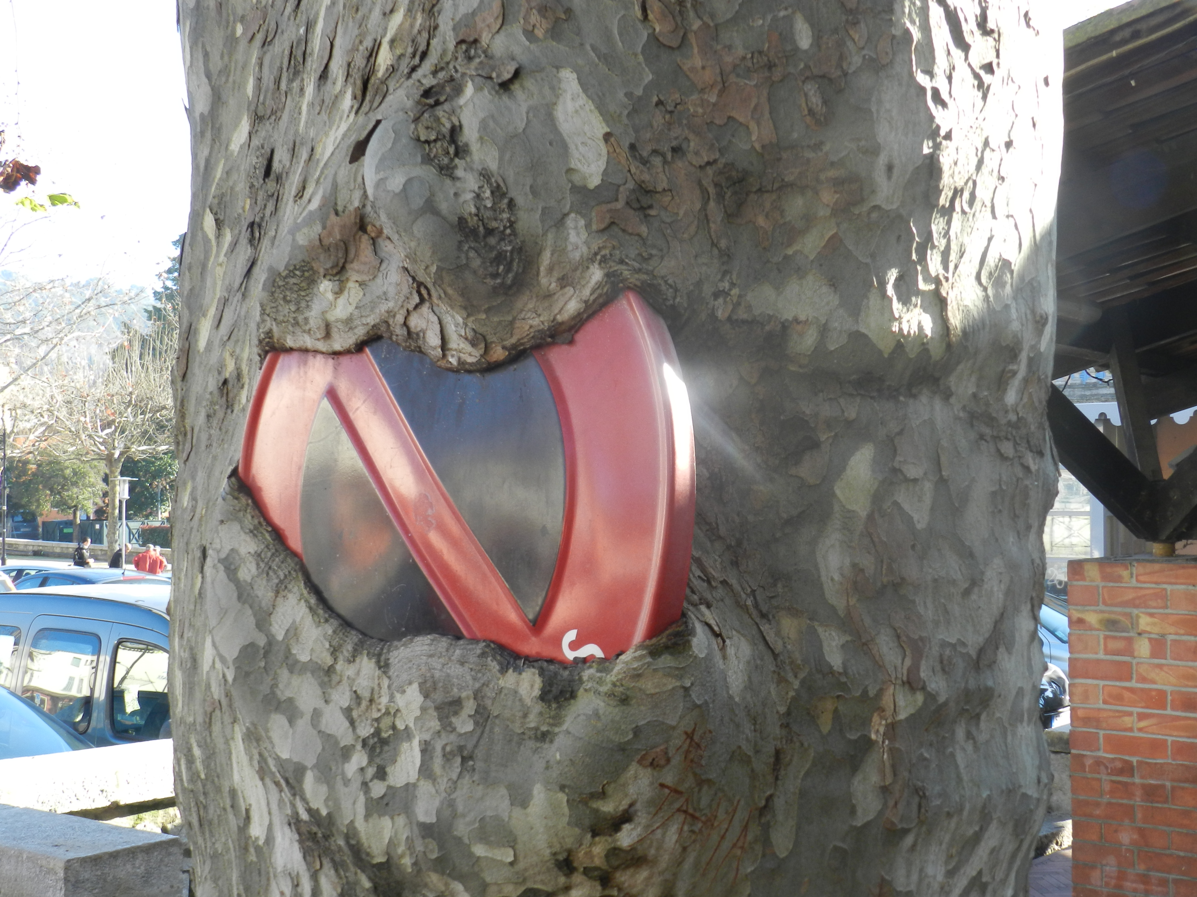 The tree does not like the ban